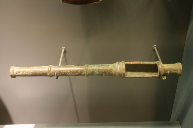 A small Chinese bronze cannon from the Ming Dynasty.